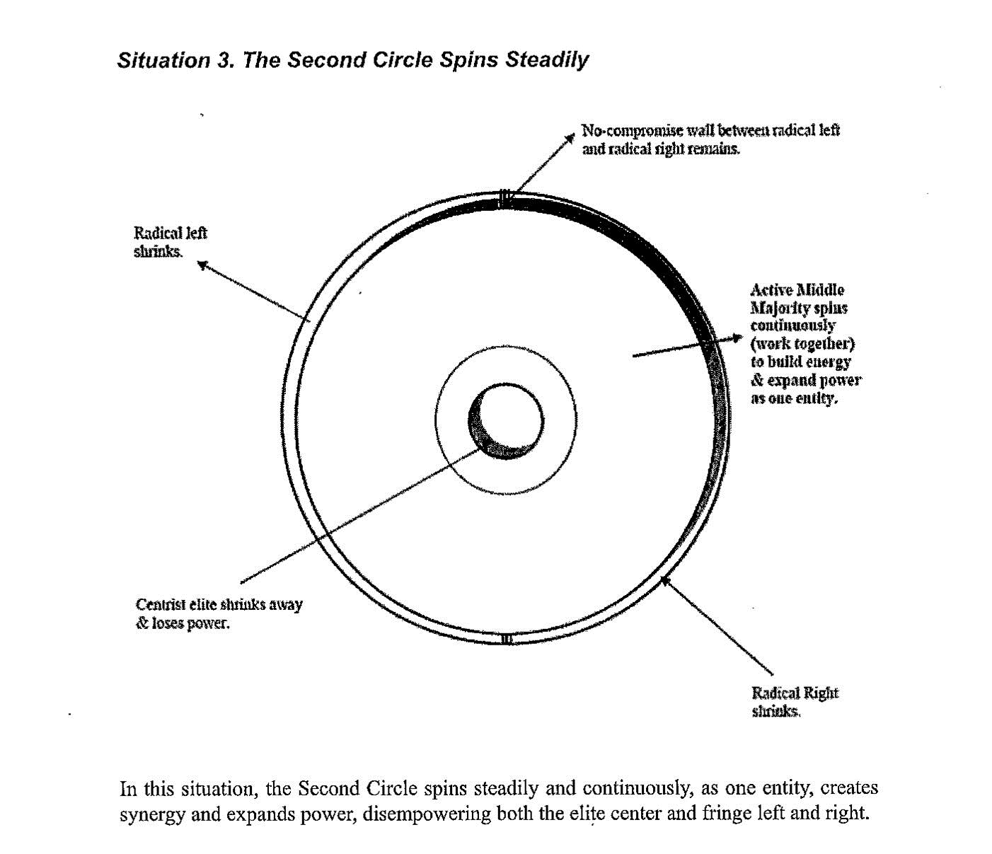 Second Circle Stage 3